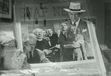 Screen shot of ""Here's Flash Casey" from Public Domain